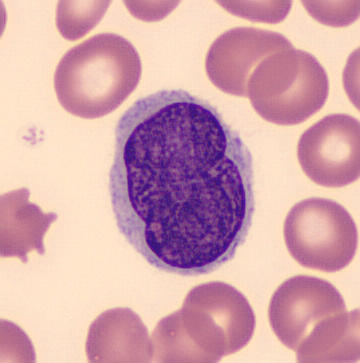 A Sezary Cell in a peripheral blood smear. Surrounded by Erythrocytes and an Akanthocyte.